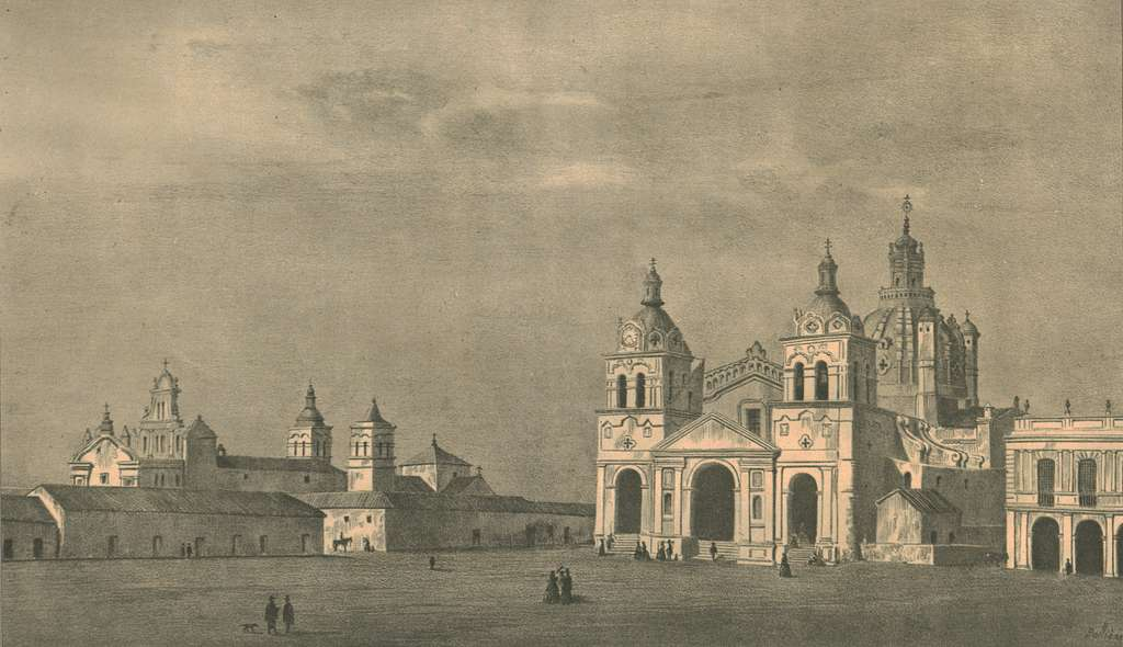 Litography of main church of Cordoba, Argentina. Made in 1858.